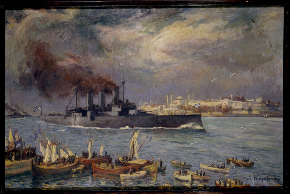 The entry of the Greek cruiser Georgios Averof in Constantinople's Golden Horn after the end of World War I, oil on canvas, 93 cm x 130 cm. National Historical Museum, Athens, Greece.